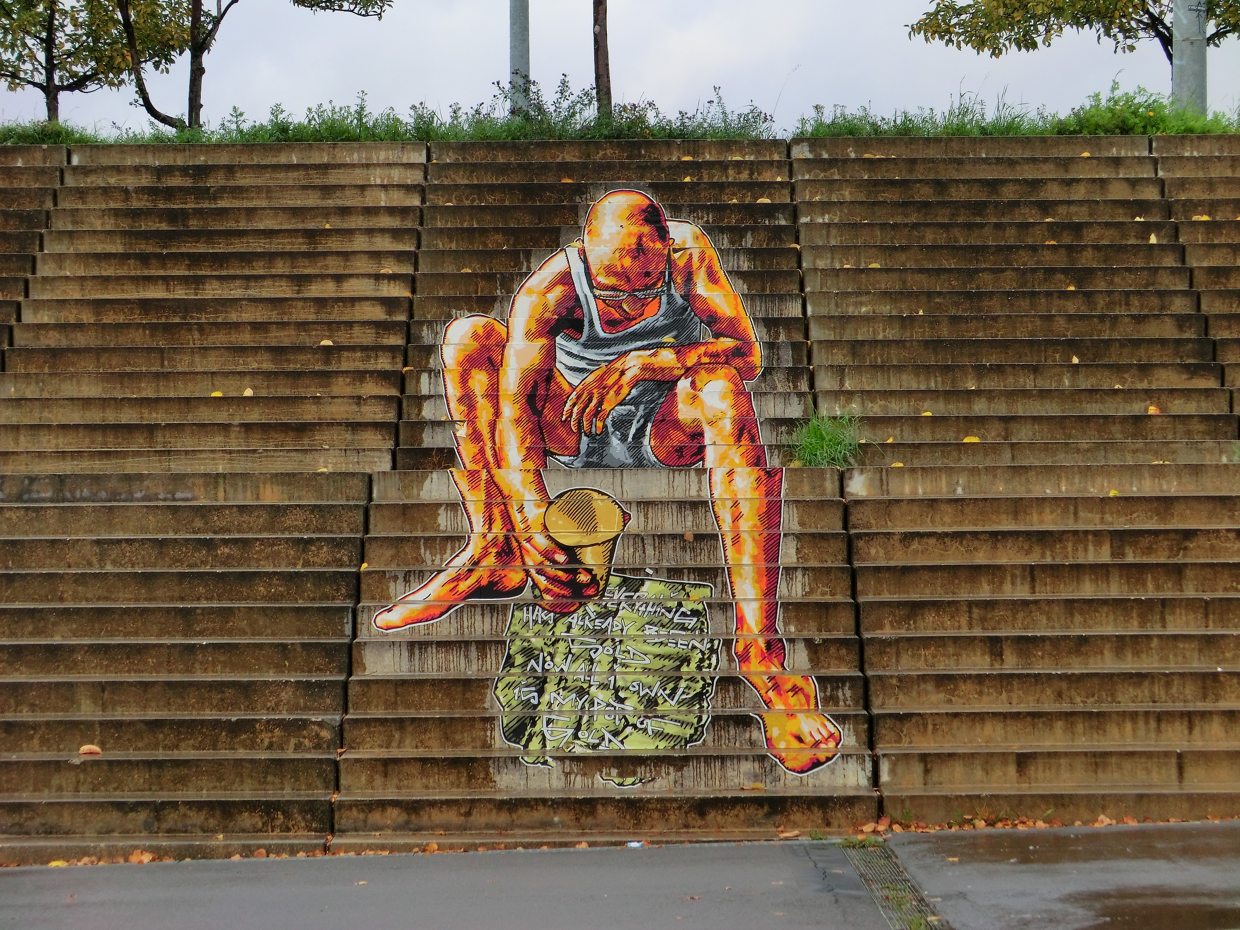 in Berlin - Friedrichshain Street Art 2012